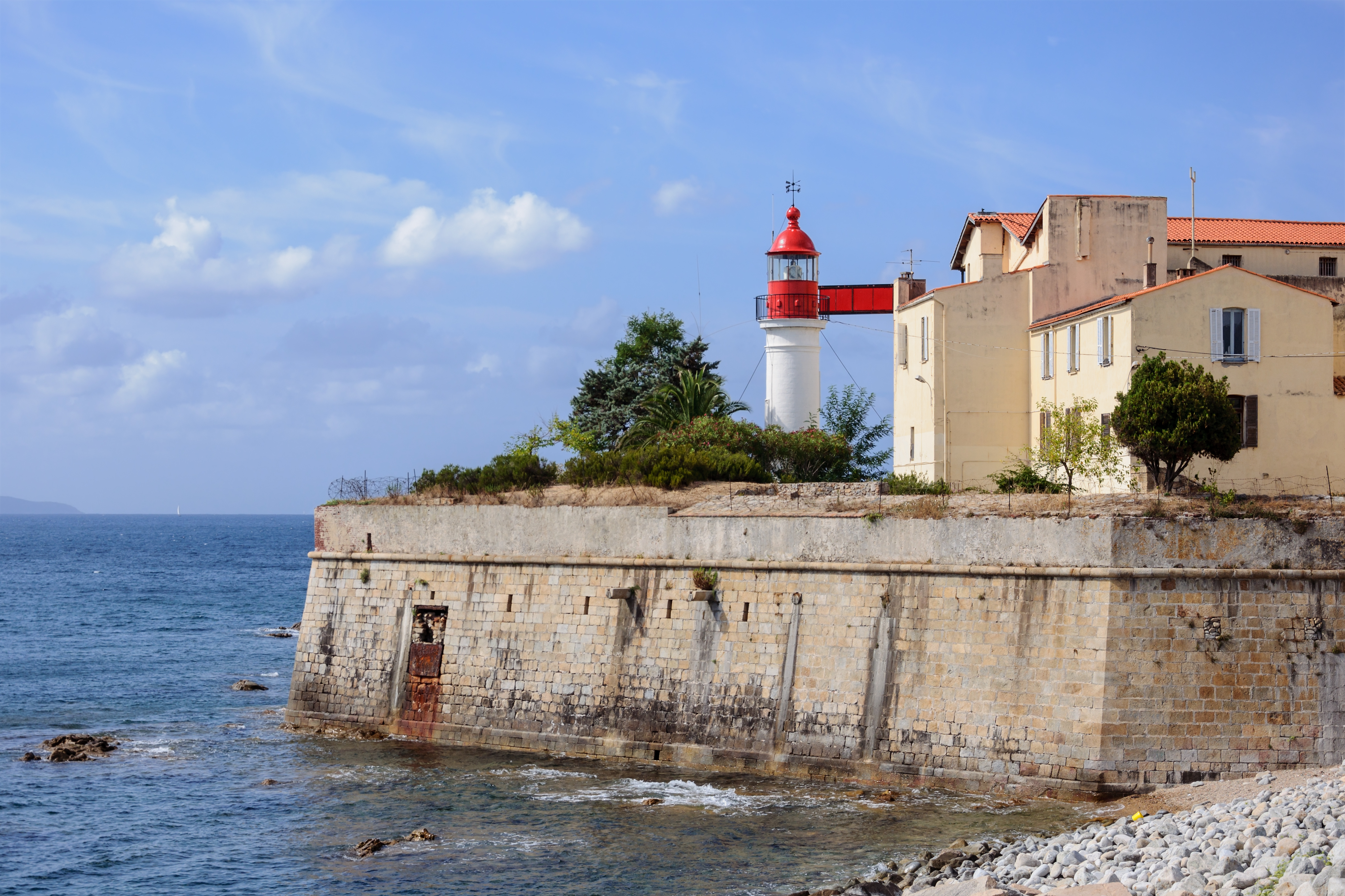 The lighthouse of the citadel of Ajaccio, Southern Corsica, France